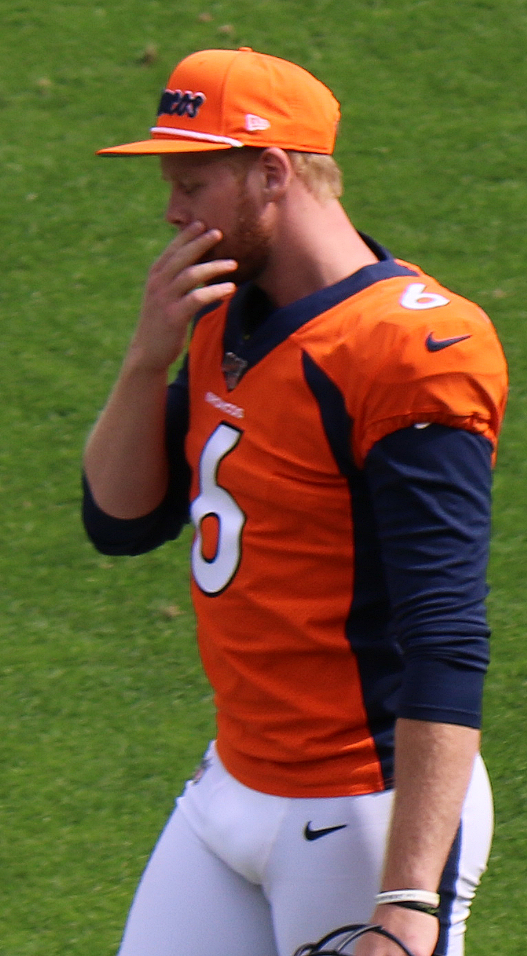 Colby Wadman, a National Football League player.